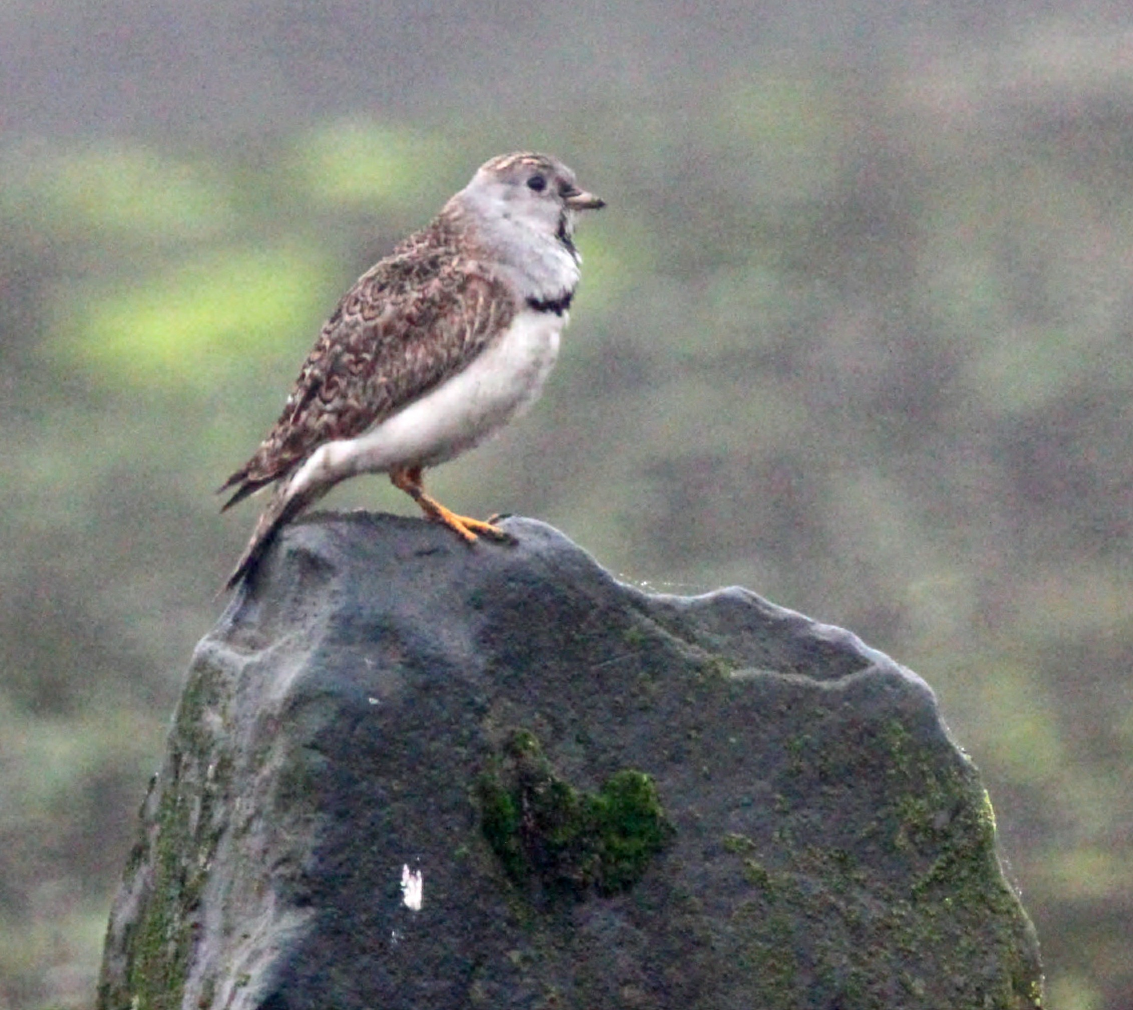 Least Seedsnipe (Thinocorus rumicivorus)